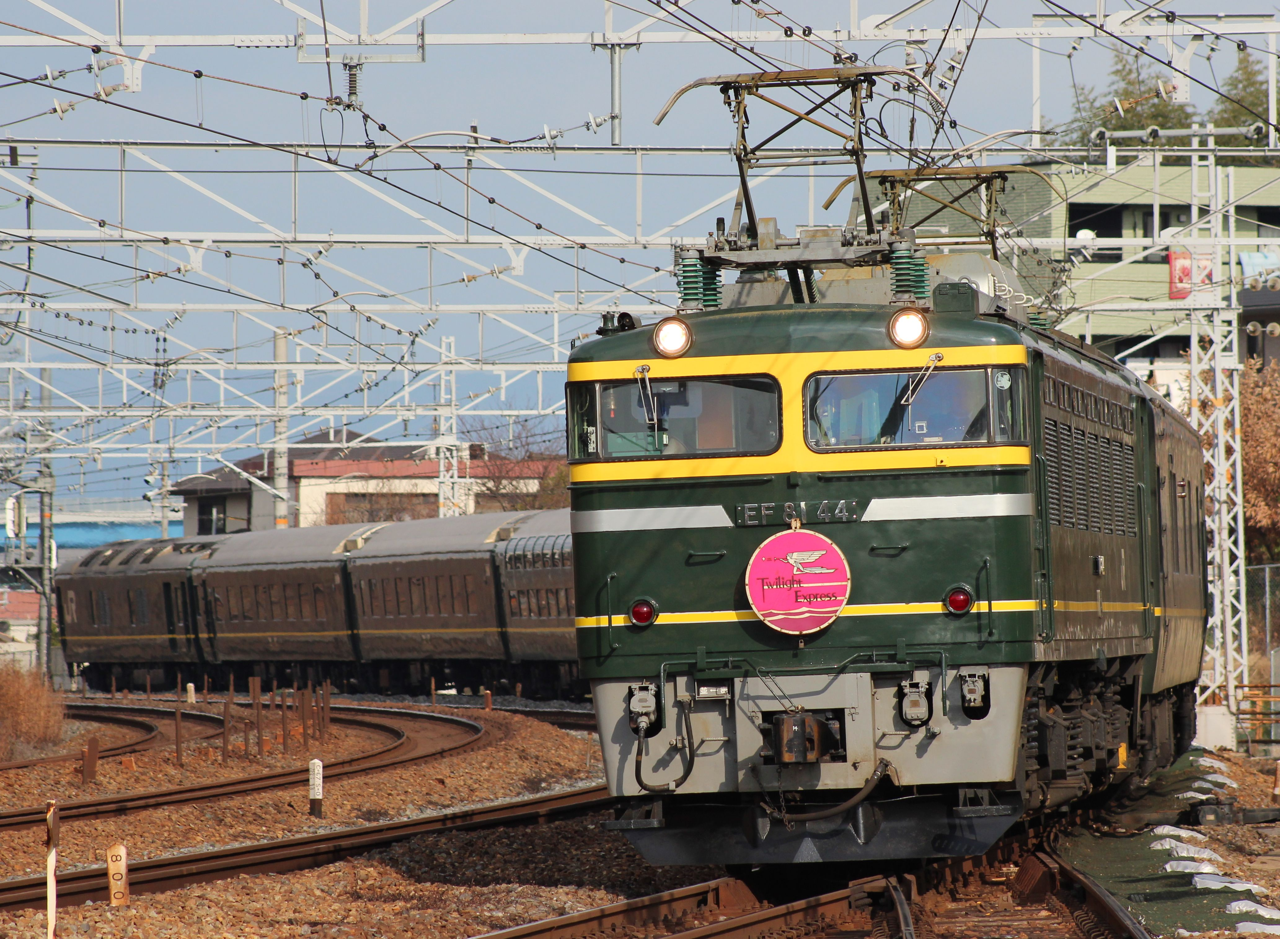 JR West Class EF81 electric locomotive EF81 44 hauling a Twilight Express sleeping car service